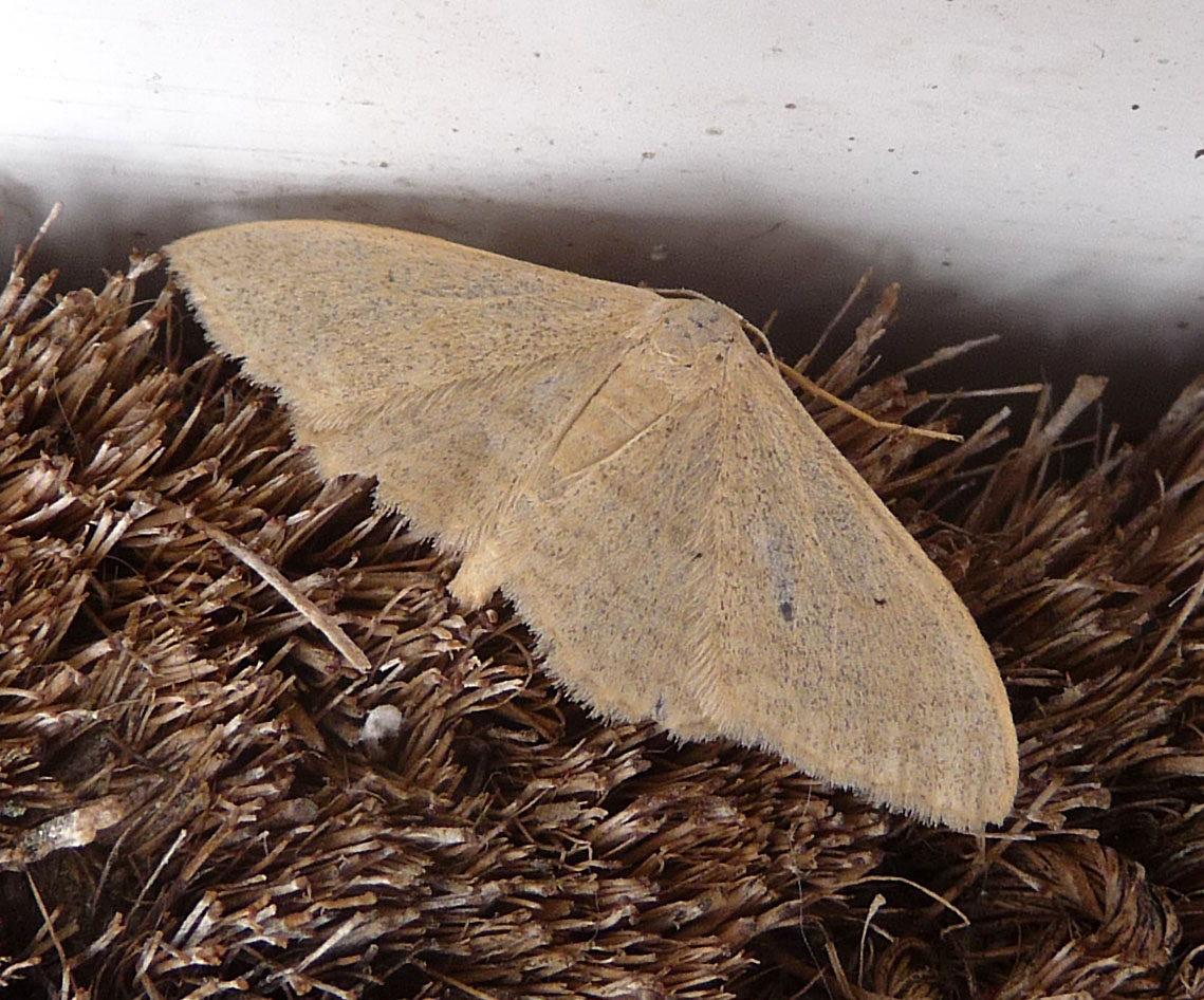 Geometridae. Sterrhinae. Idaeini .Idaea straminata. Plain Wave